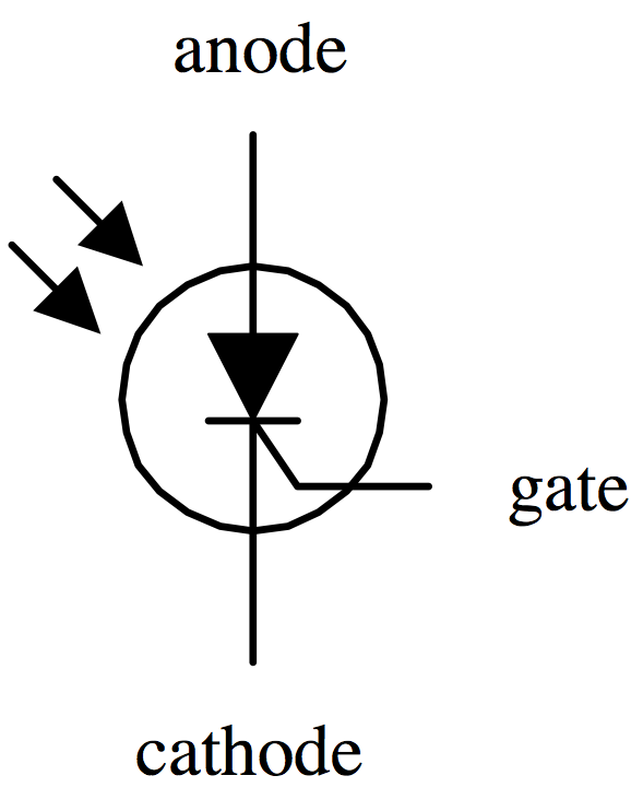 own work